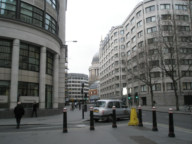 Junction of St Martin's-le-Grand and Gresham Street Taken looking down towards St Paul's Cathedral